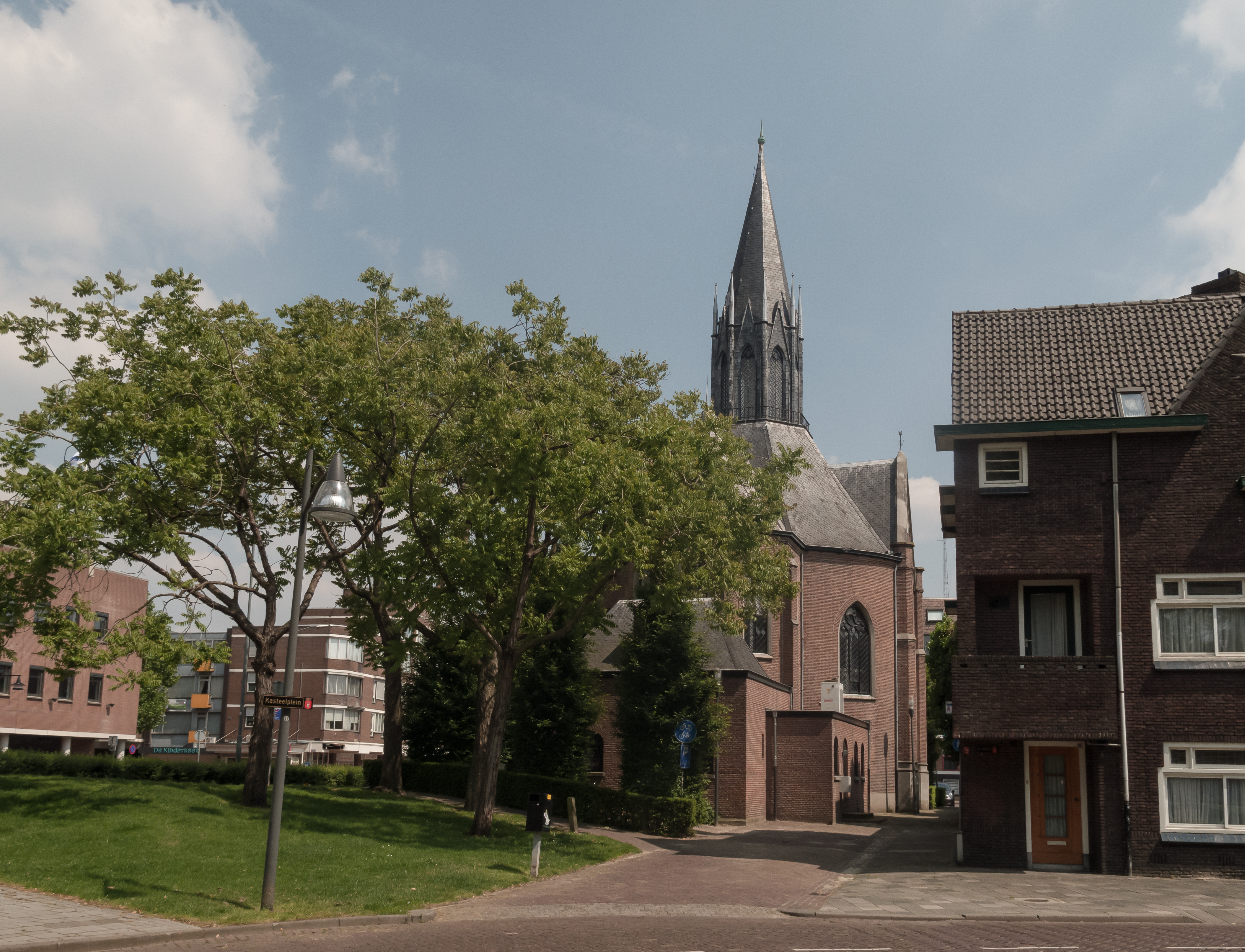 Helmond, former reformist church